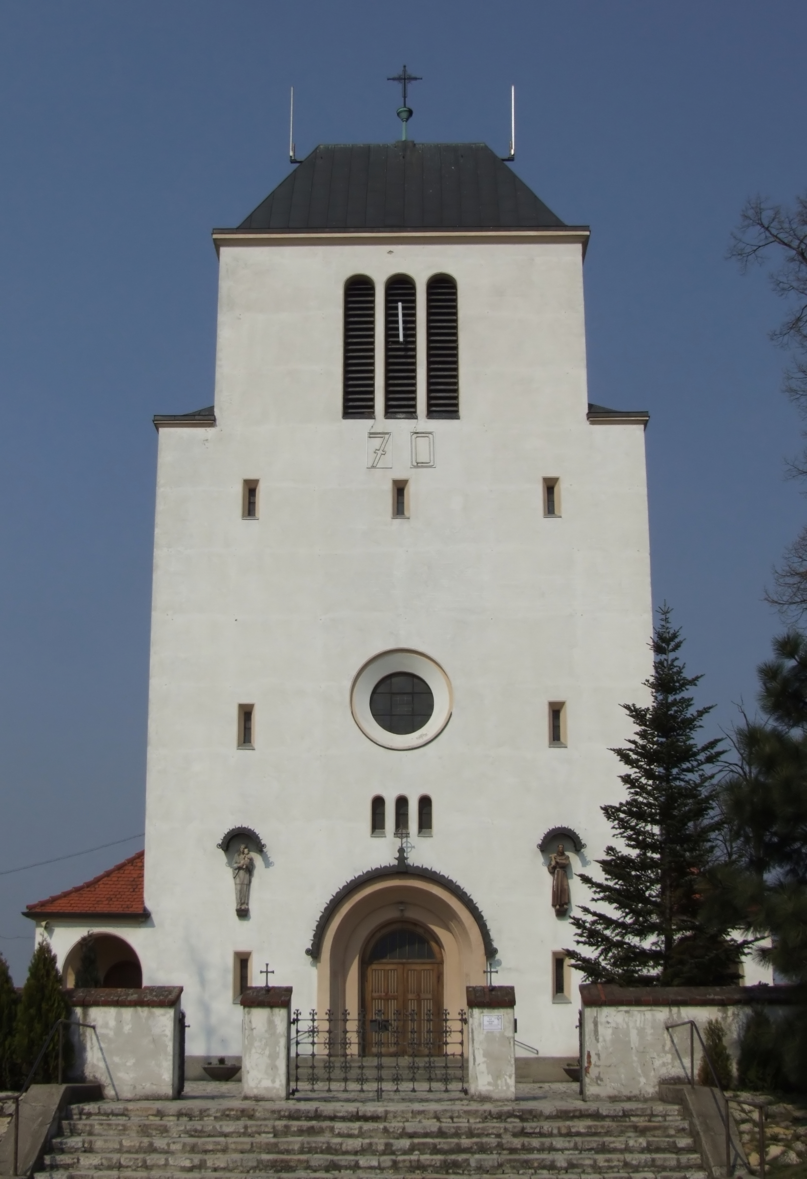 Church in Komprachcice (Comprachtschütz) Ślůnski: Kośćůł we Kůmprachćicach